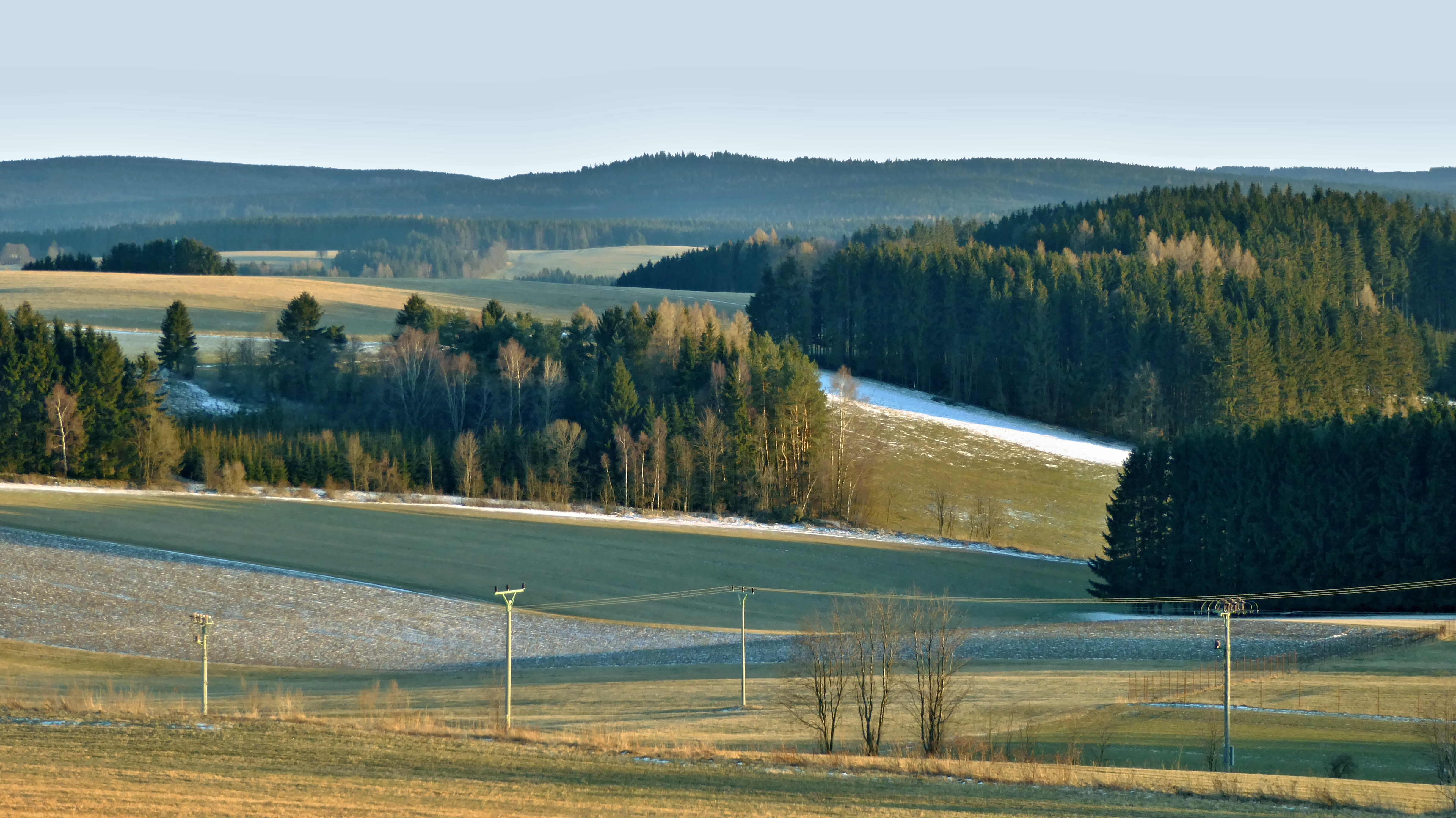 View from the southern slope of the hill with name "U oběšeného", on the horizon roughly in the middle of the shot the Nine rocks (czech: Devět skal), the highest peak (836 m asl.) of the geomorphological district "Devítiskalská" highlands.In the foreground of the picture under the woods is pathway between villages Svratouch and Chlumětín, above the way to the right is a wooded location "Dlouhá leč" (706 m asl.). Protected Landscape Area "Žďárské" hills. Photo-location: Czechia, Pardubice Region, the village of "Svratouch".